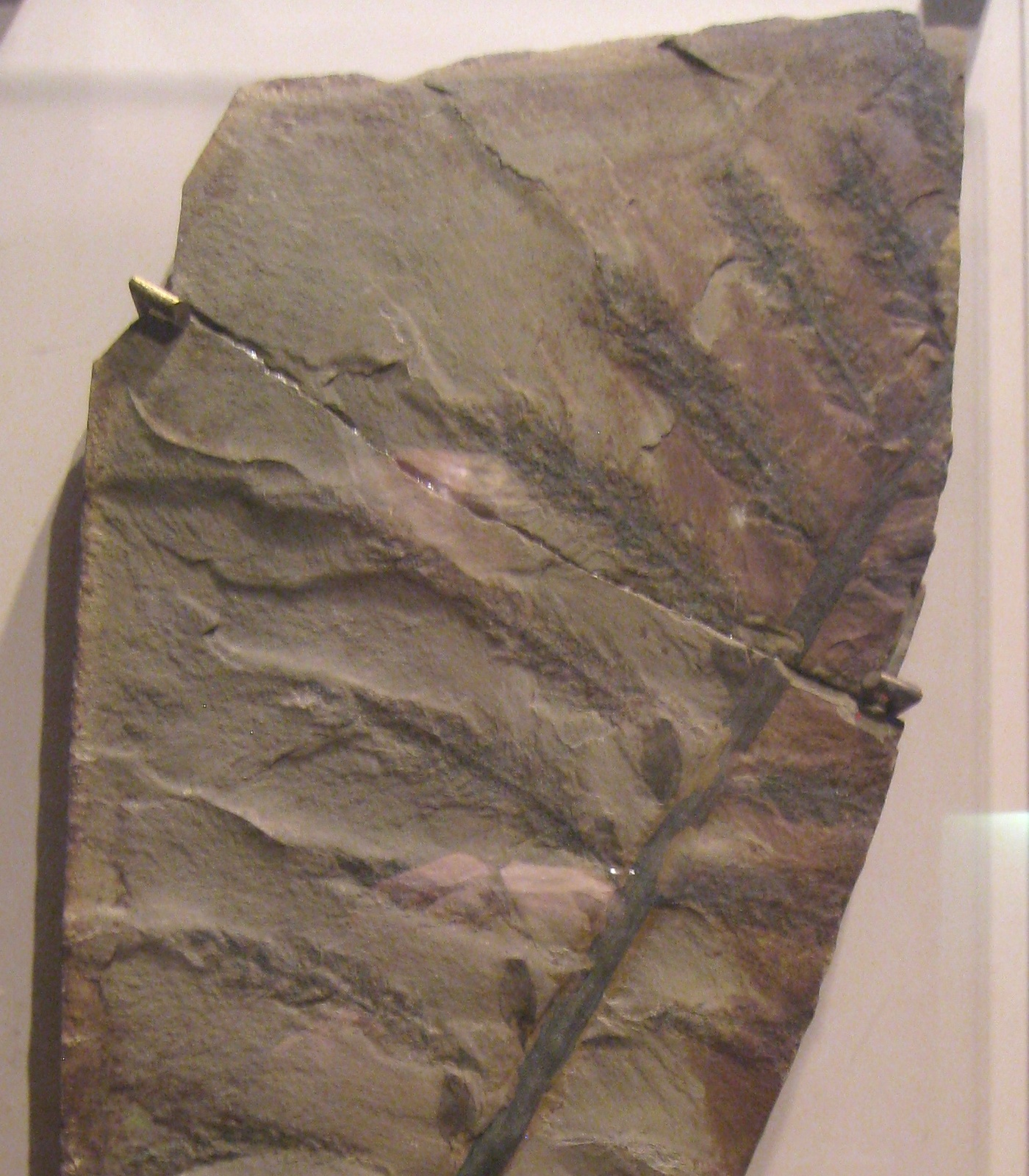 Archaeopteris hibernica fossil specimen in the National Museum of Natural History, Smithsonian Institution, Washington, DC, USA.